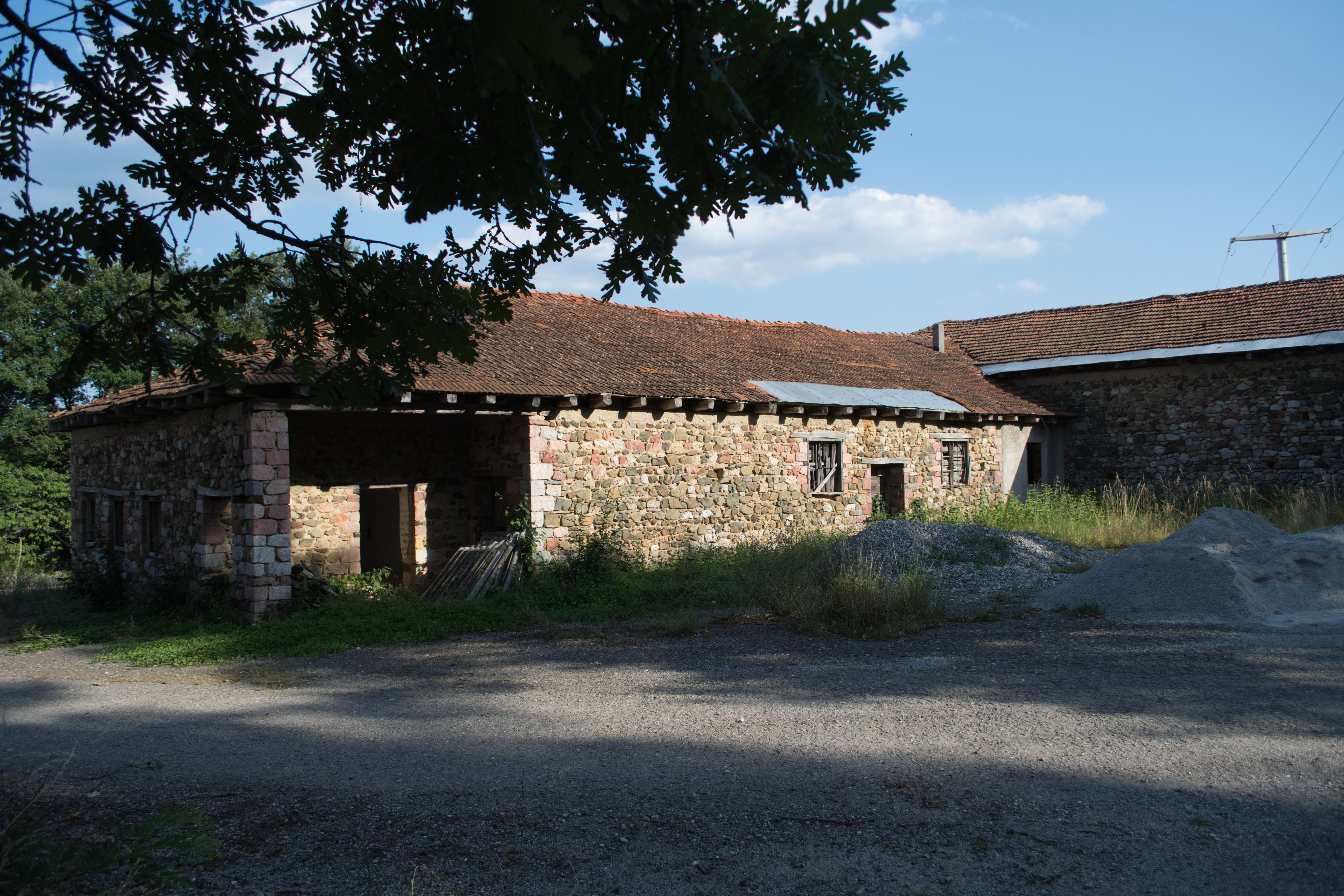 Building of a former agricultural cooperative in the village of Nerezi